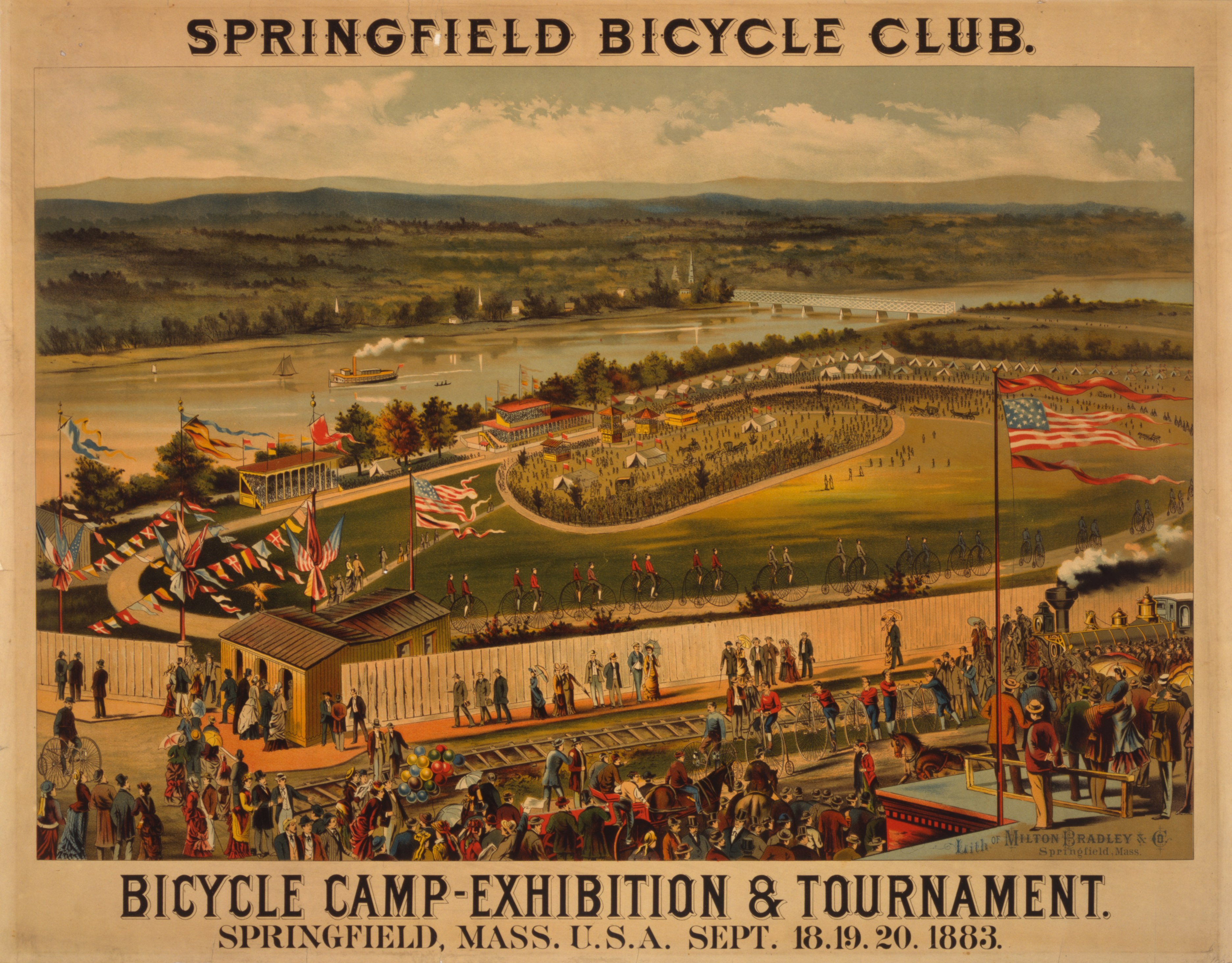 Title: Springfield Bicycle Club--Bicycle Camp-Exhibition & Tournament, Springfield, Mass, U.S.A., Sept. 18, 19, 20, 1883 / lith. of Milton Bradley, & Co., Springfield, Mass. Abstract/medium: 1 print : lithograph, color.